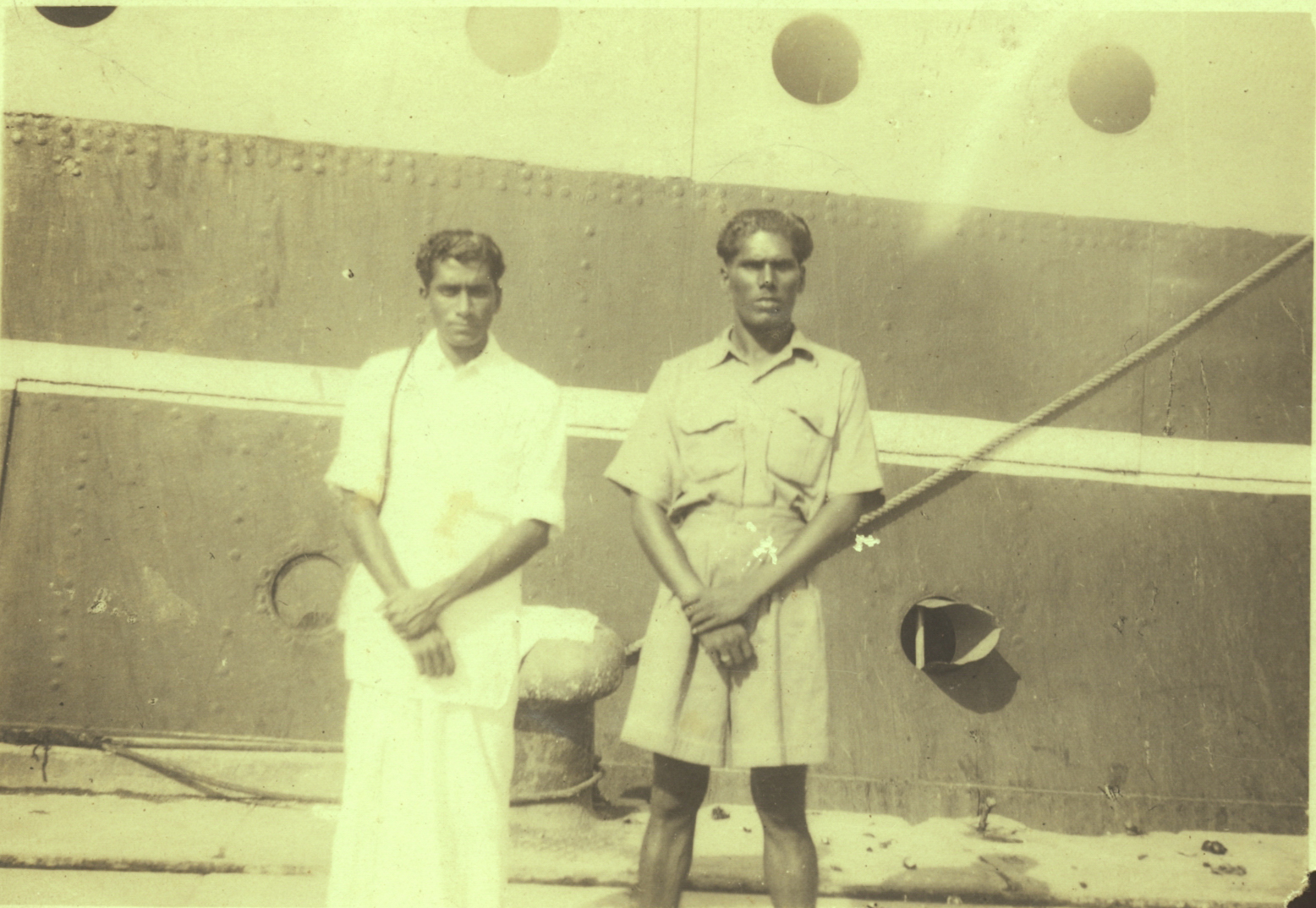 Most Tamils traveled on this ship to Singapore and Malaysia